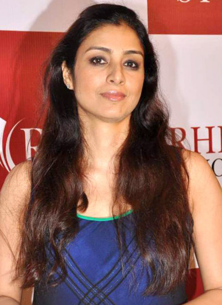 Tabu & Dhoni at Mahi Racing launch (2012) at New Delhi.